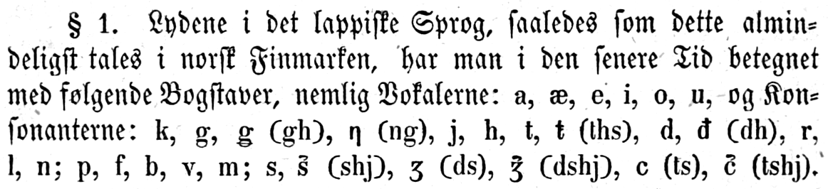 Saami alphabet in Jens Andreas Friis (1856) Lappisk grammatik.